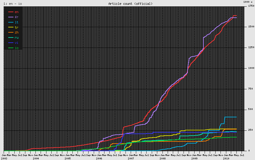 Graph showing Wiktionary growth